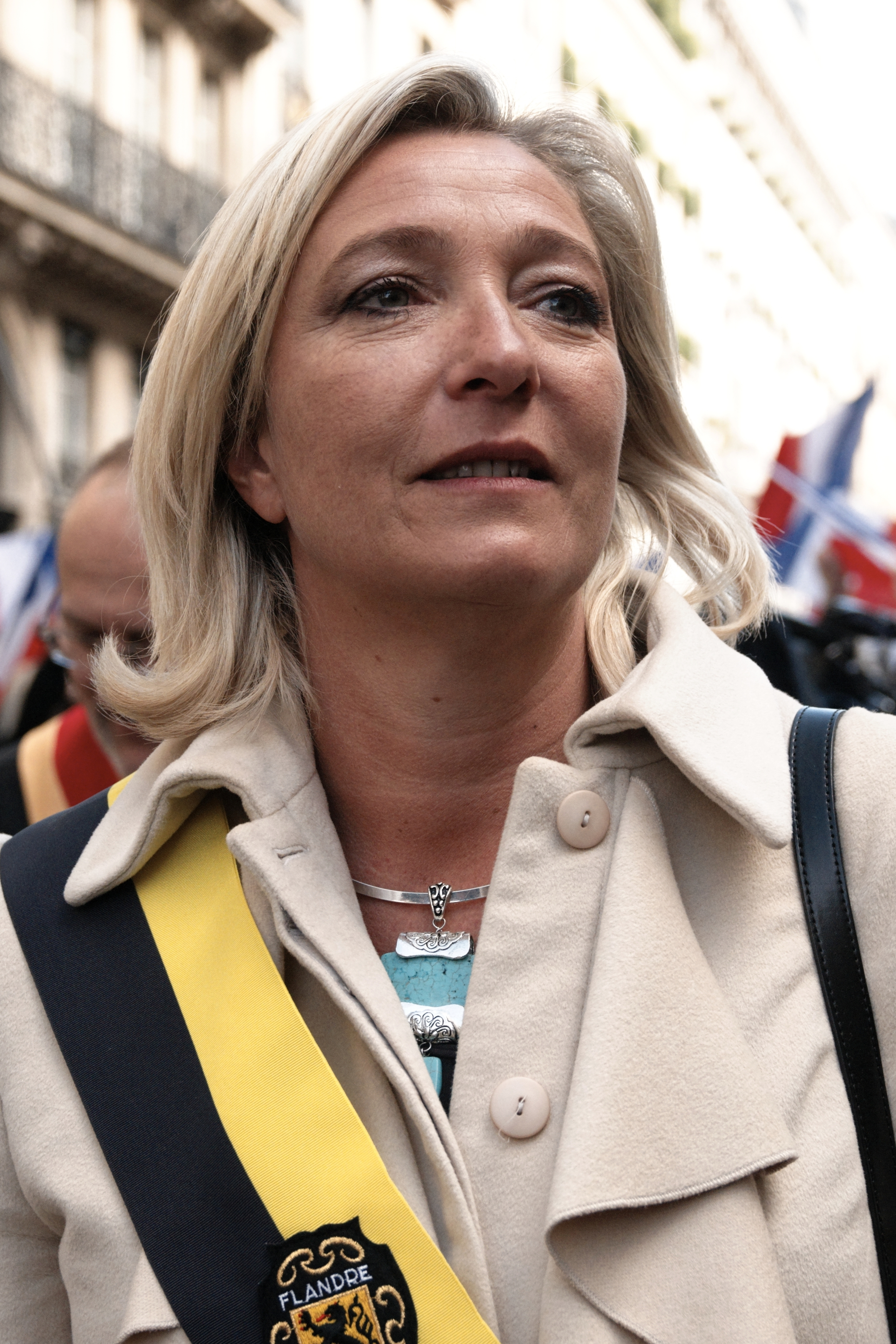 Marine Le Pen at the 1st of May National Front's rally in honour of Joan of Arc, Paris.